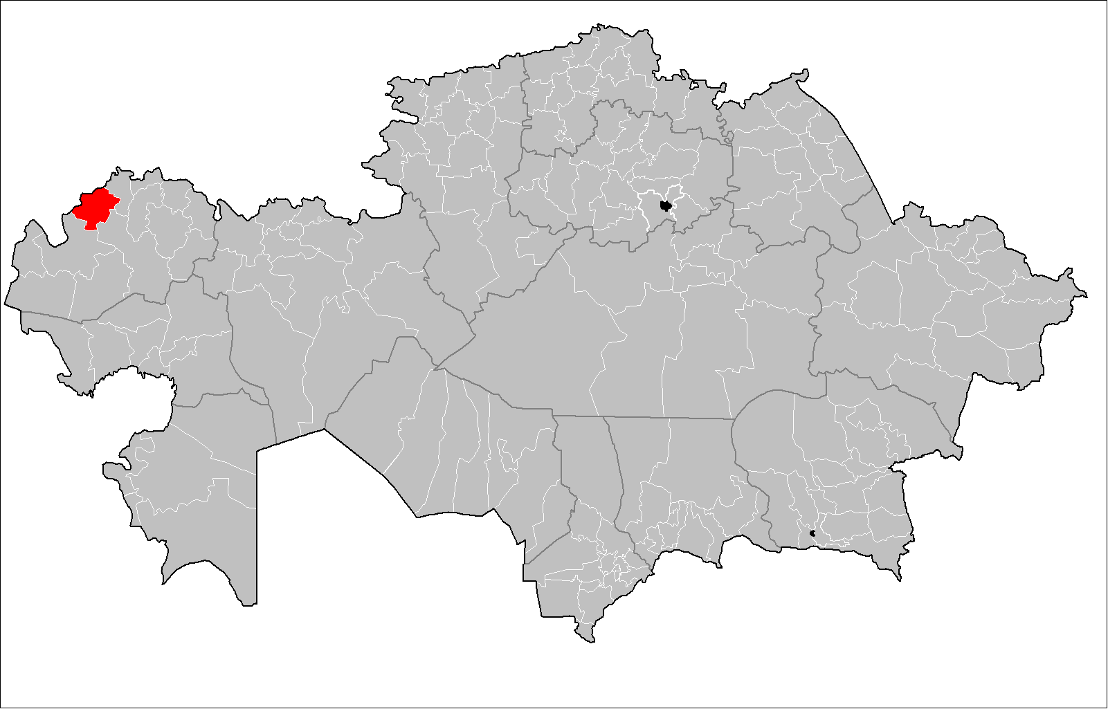 Map of Taskala District in Kazakhstan. for public domain use, using MapInfo Professional v8.5 and various mapping resources.